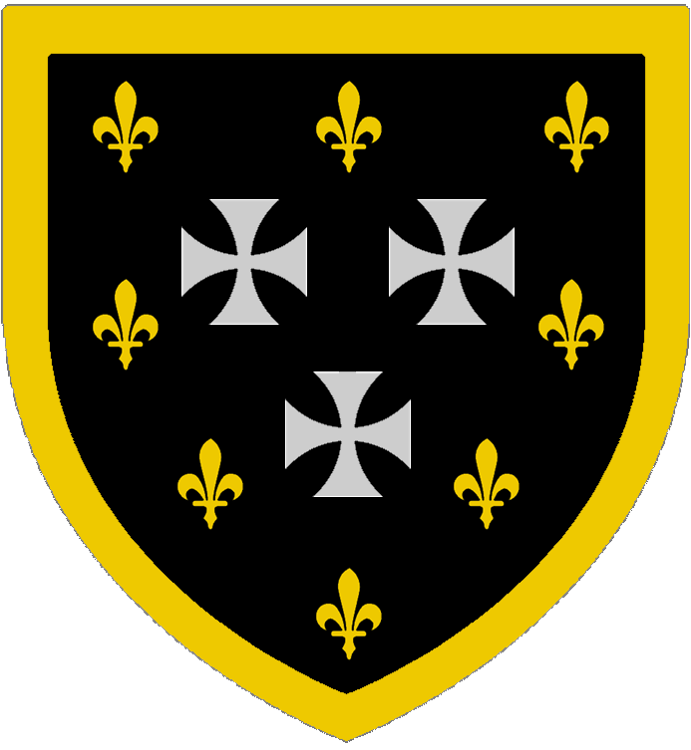 Shield of arms of The Viscount Ingleby